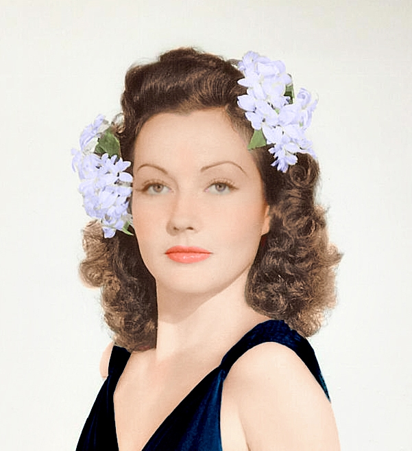 Pin-up photo of Lynn Bari for the Oct. 13, 1944 issue of Yank, the Army Weekly, a weekly U.S. Army magazine fully staffed by enlisted men. Cropped.